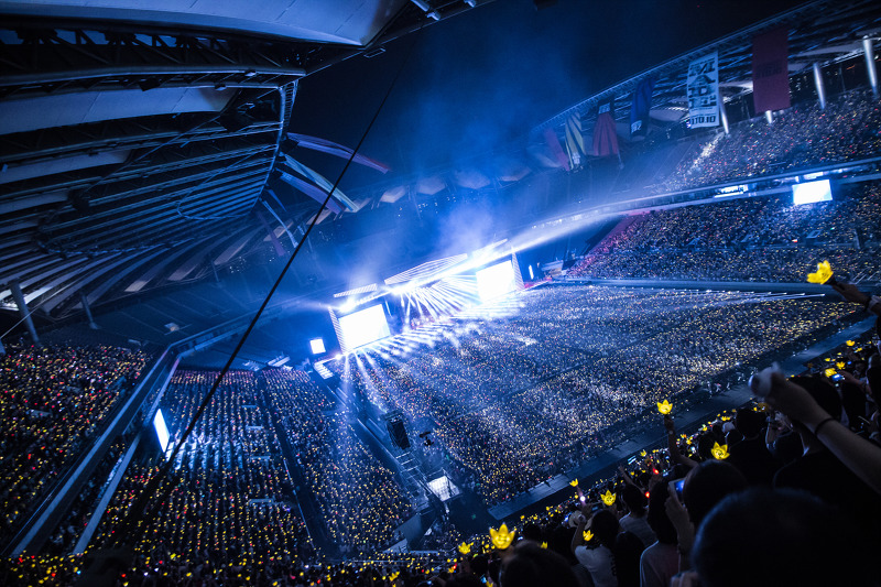 65,000 fans in BIGBANG Concert 0.TO.10 in Seoul - August 20, 2016